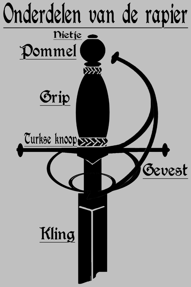 the parts of a rapier